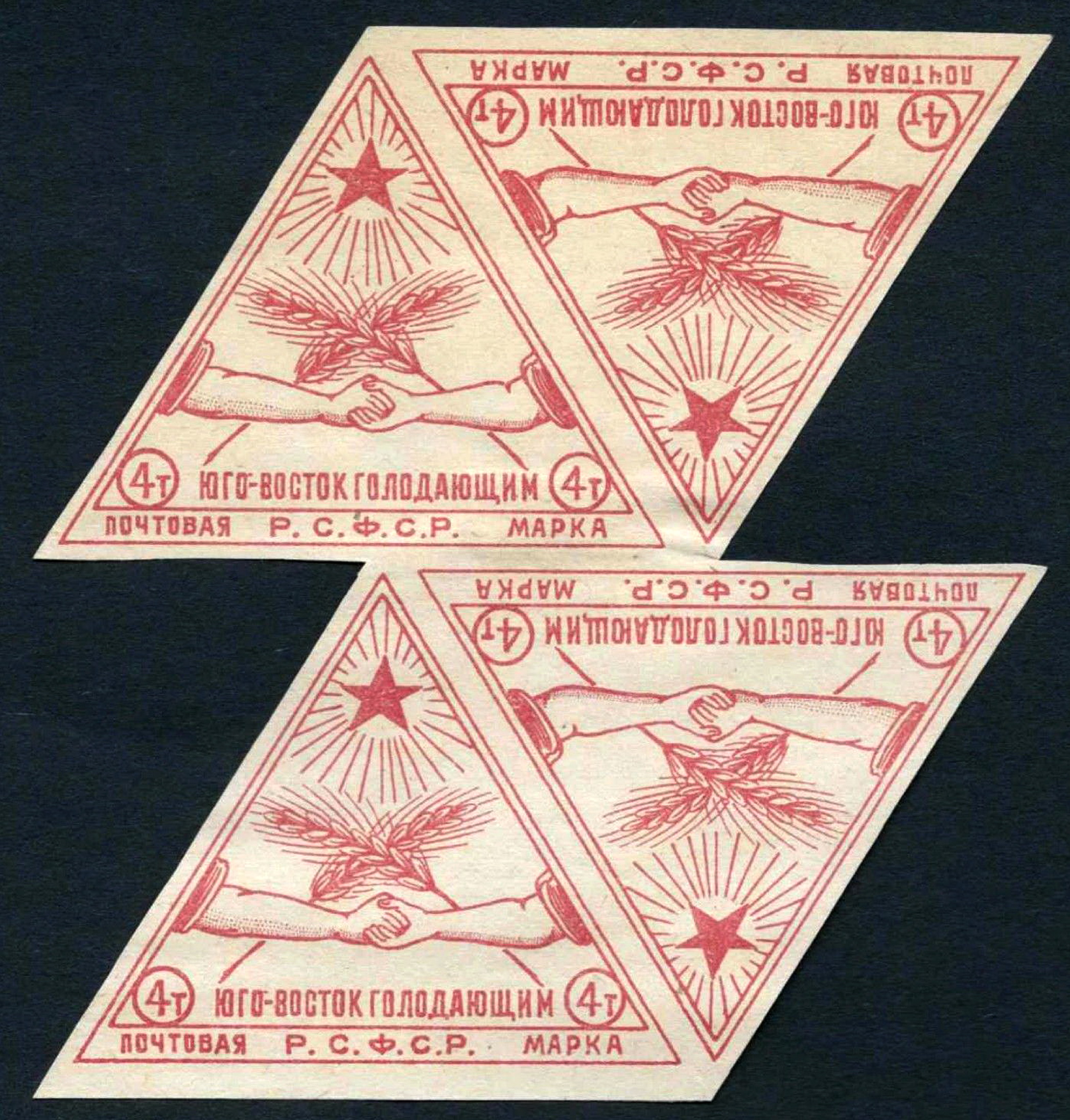 Obligatory Tax. Rostov-on-Don issue. Famine Relief. Clasped hands. Block of 4 stamps